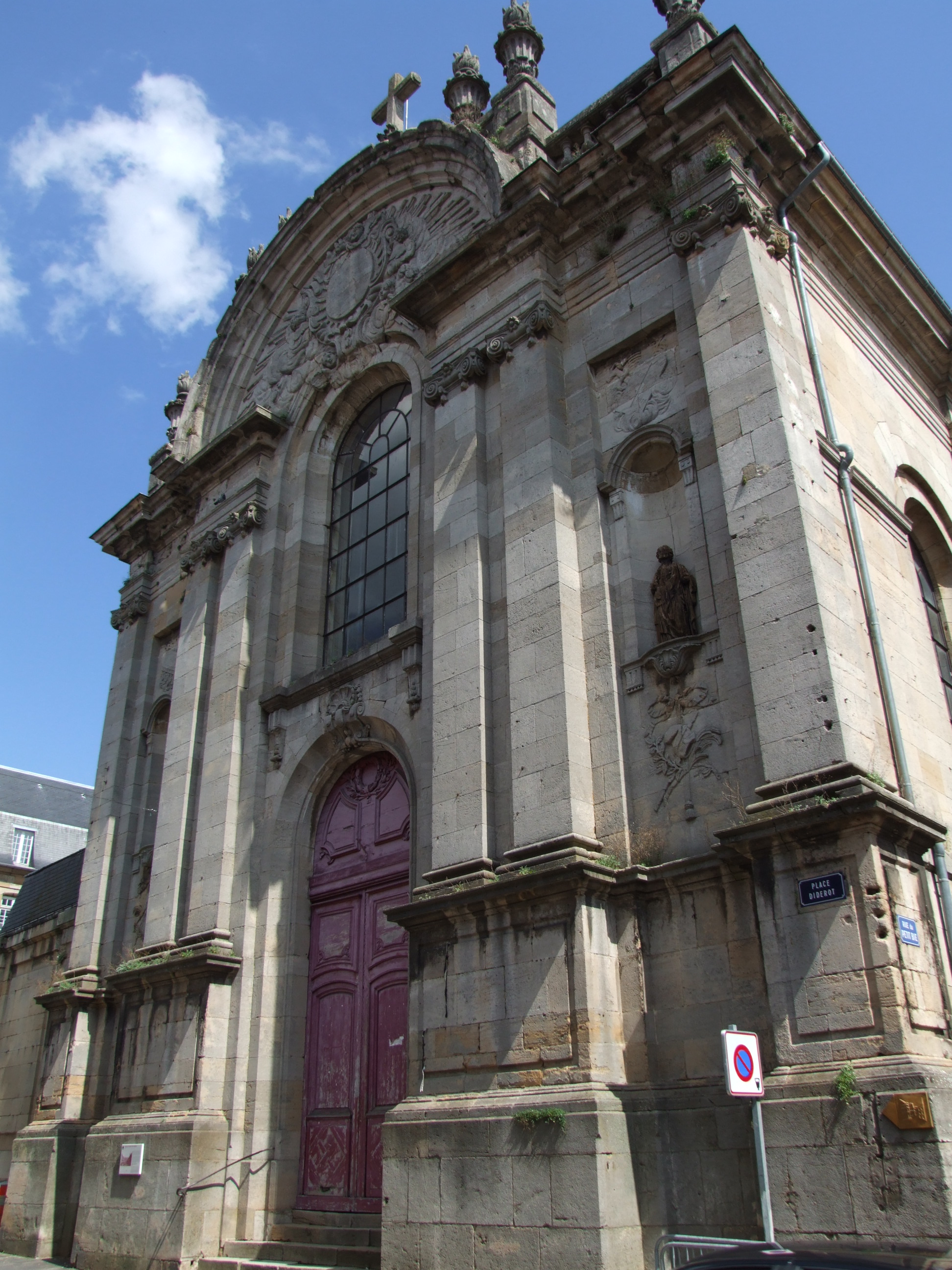 Langres, FRANCE